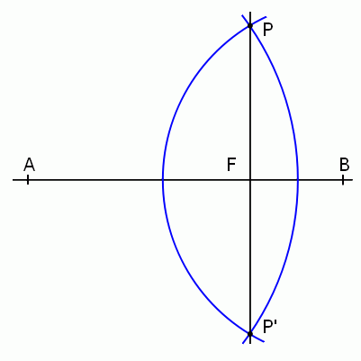 How to get the Perpendicular from a Point to a line.